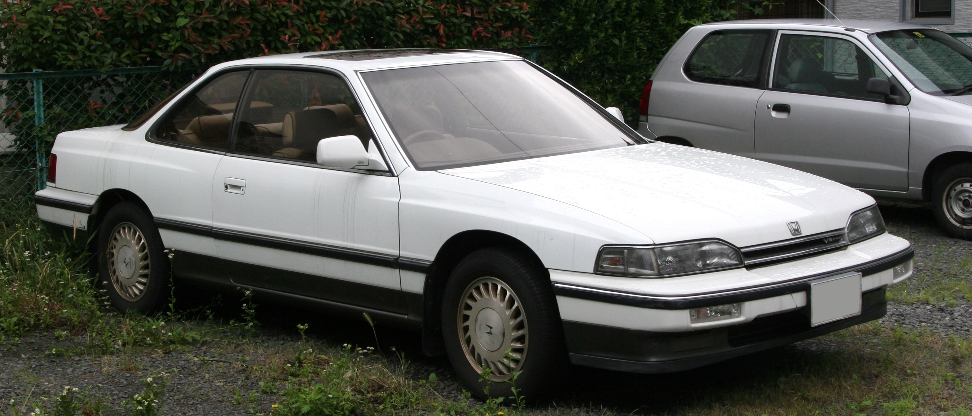 Honda Legend